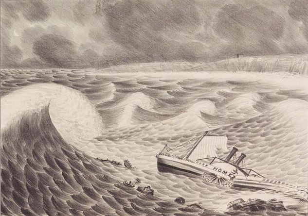 Awful wreck of the STEAM PACKET HOME: on her passage from New York to Charleston, Nathaniel Currier A hand-colored lithograph showing the wreck of the steamboat S.S. Home in October 1837, during the Racer's storm.